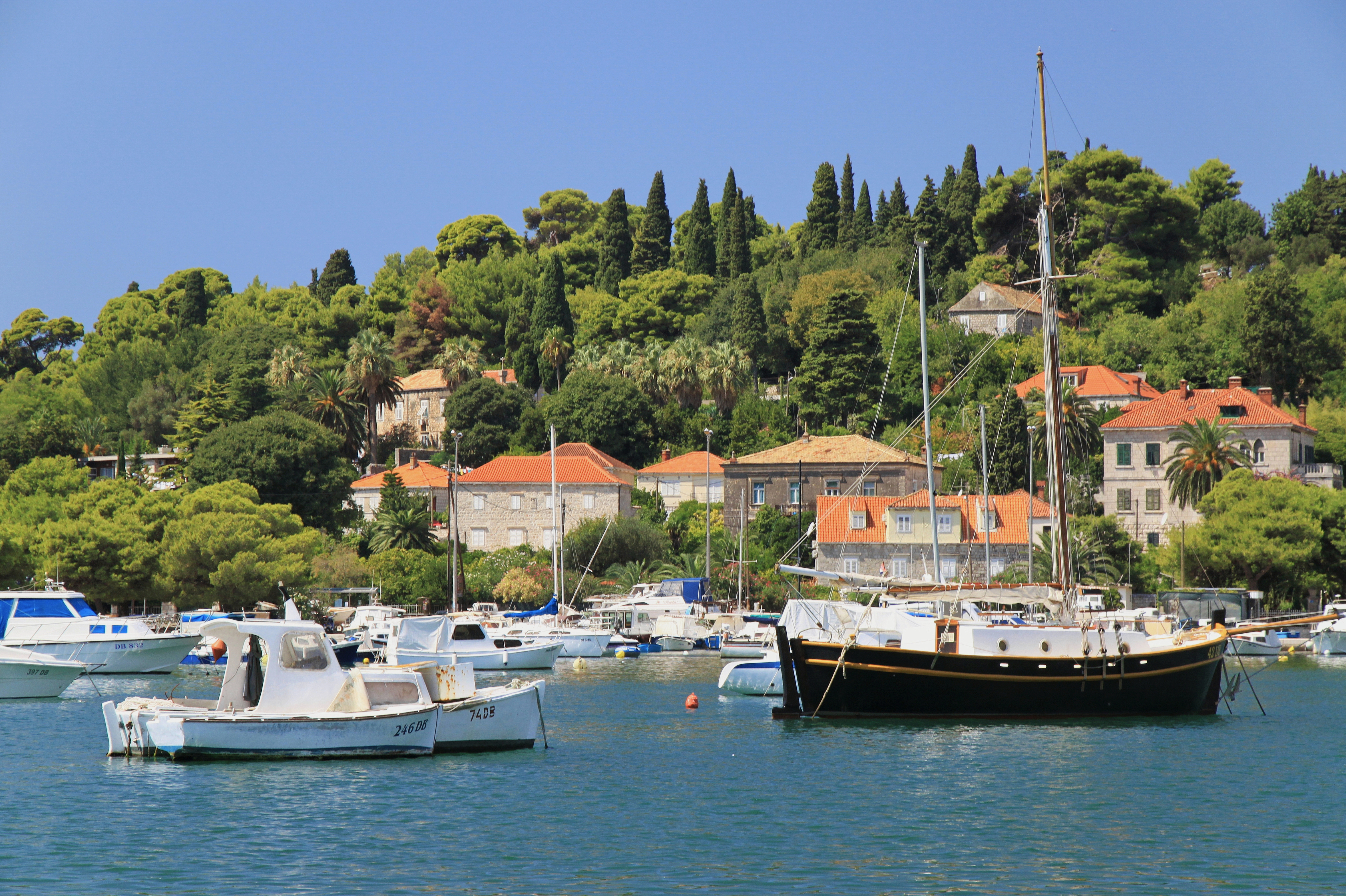 View of the main port in the Gruž district. Dubrovnik, Dubrovnik-Neretva County, Croatia.